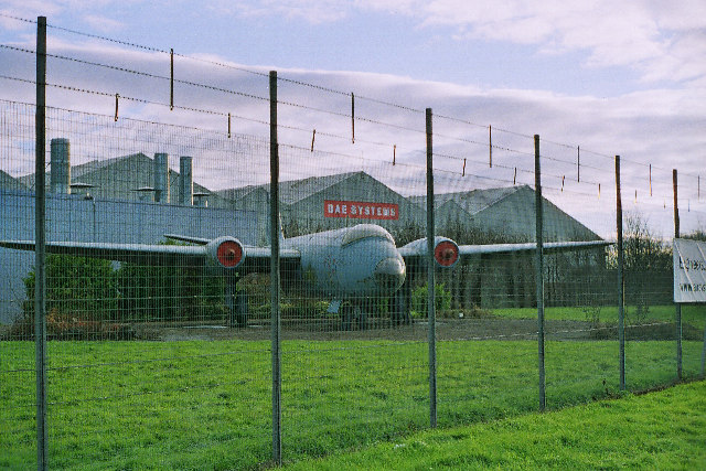 Canberra, Samlesbury. One of the many planes made here and shortly (early 2006) to retire after 55 years service with the RAF.